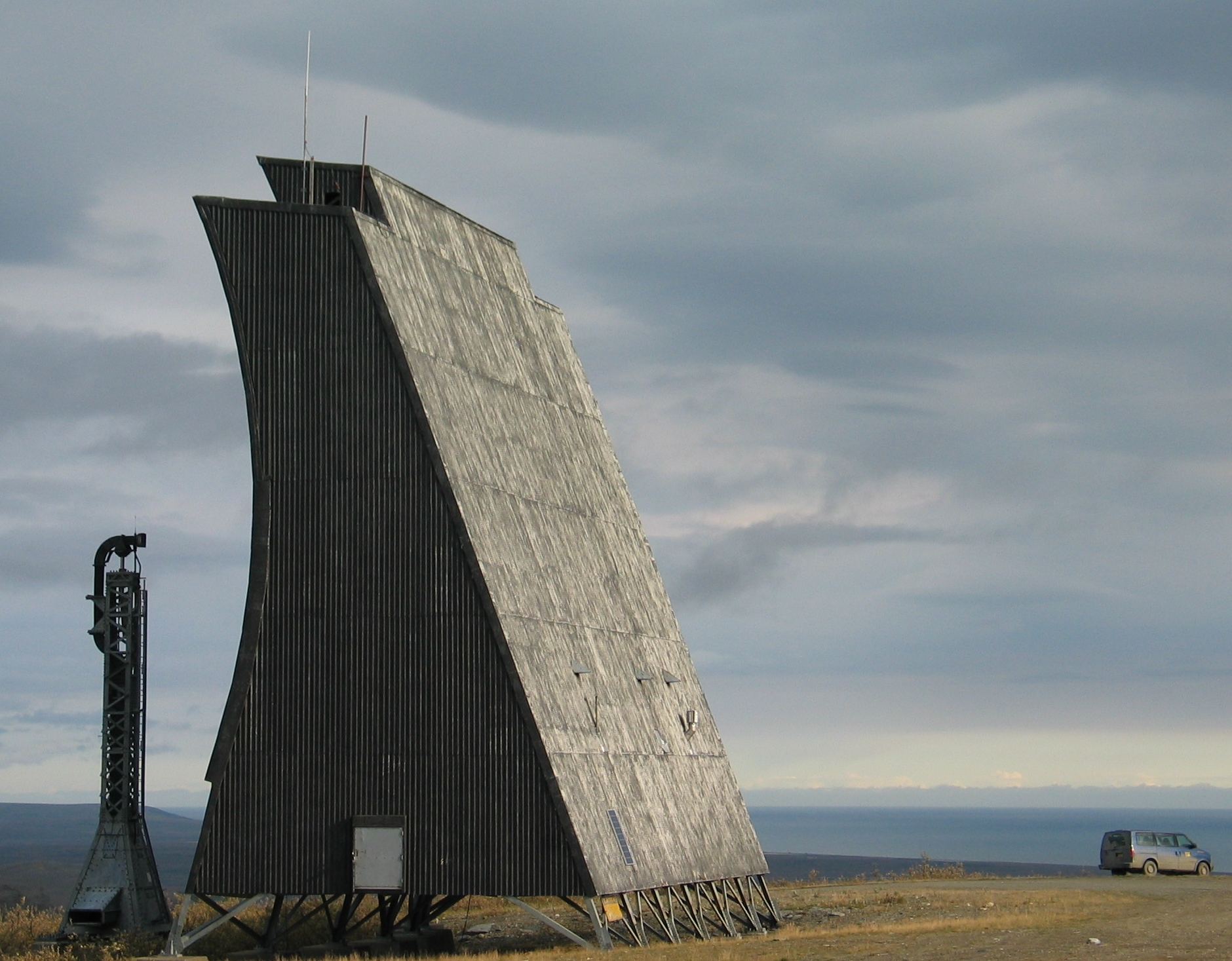 White Alice Tropo Antenna upon the Anvil Mountain, Nome.